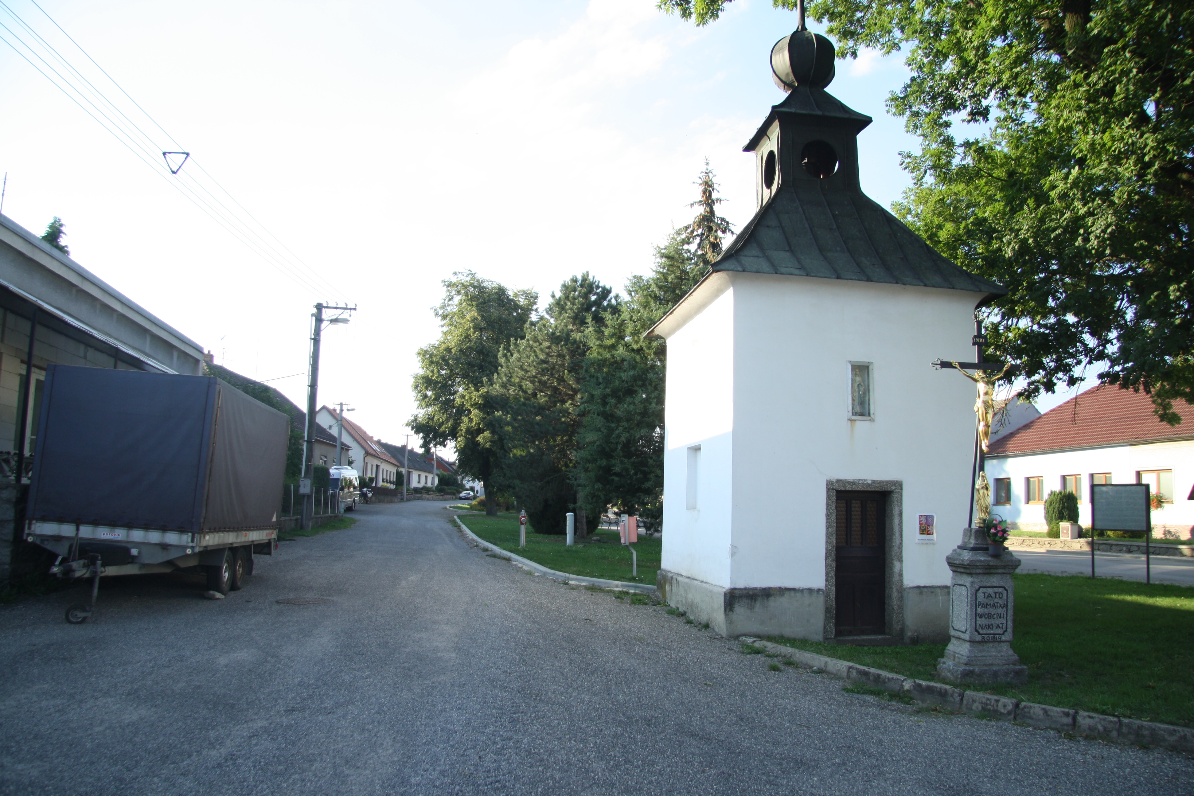 Center of Dolní Heřmanice with chapel of Divine Mercy and Saint Faustina in Dolní Heřmanice, Žďár nad Sázavou District.